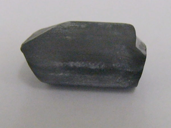 Elementary lithium metal forms slowly its nitride on air.